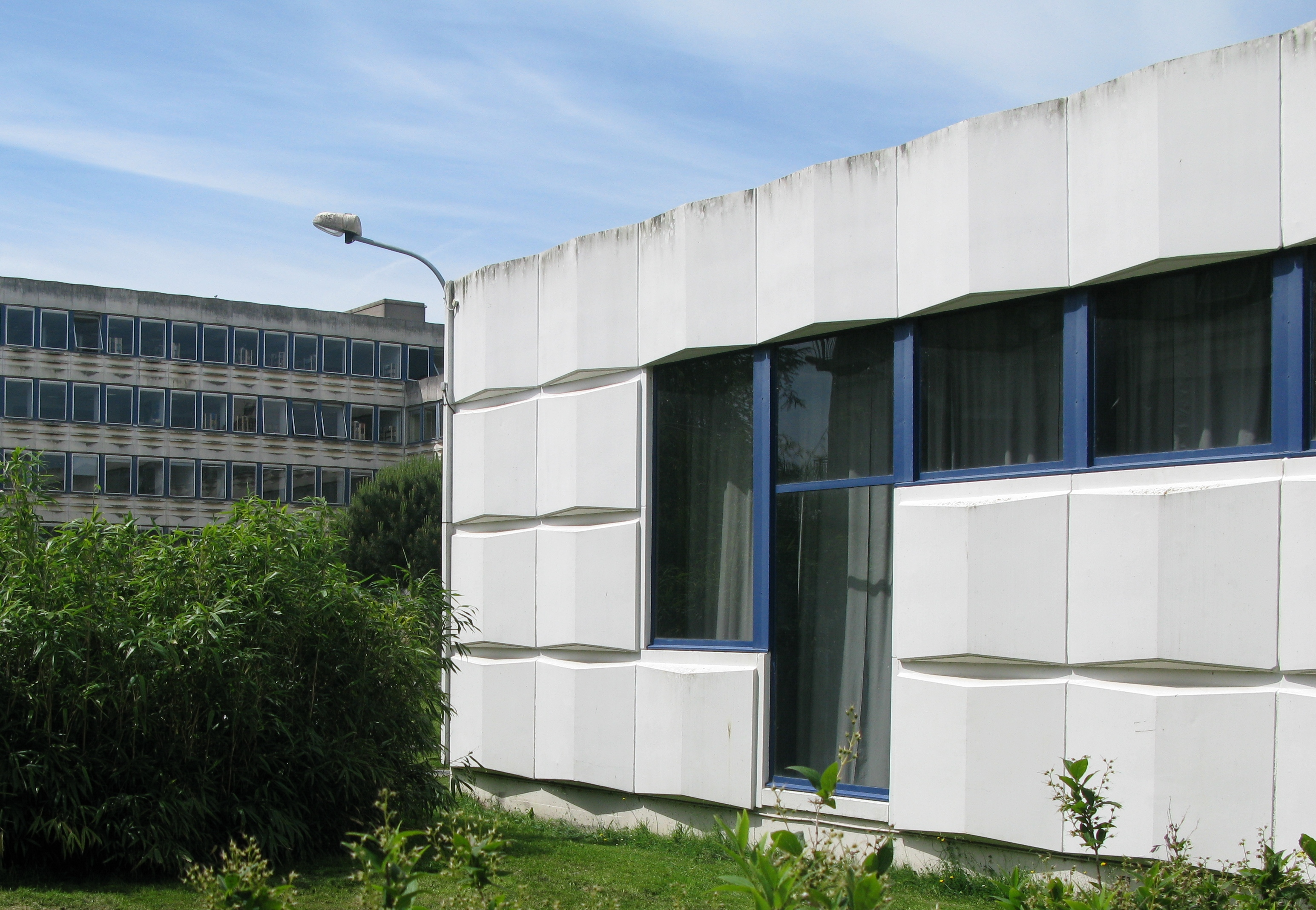 "D" building of Rennes 2 University in Rennes, France. This building was built in the 60's by architect Louis Arretche.